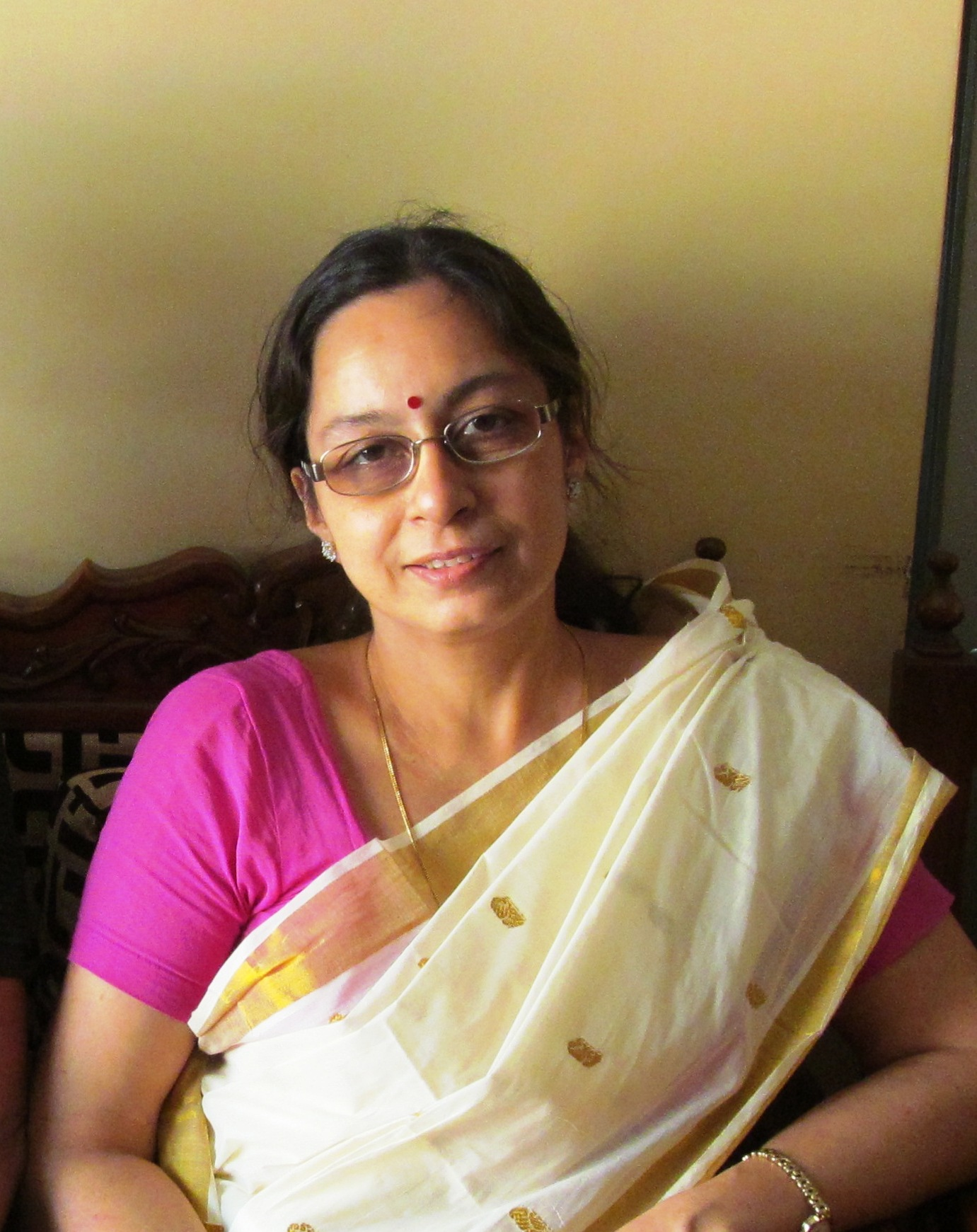 Left Front Candidate for Kolkata South Constituency, Lok Sabha Elections, India 2014 Professor, Jadavpur University, Department of Computer Science & Engineering